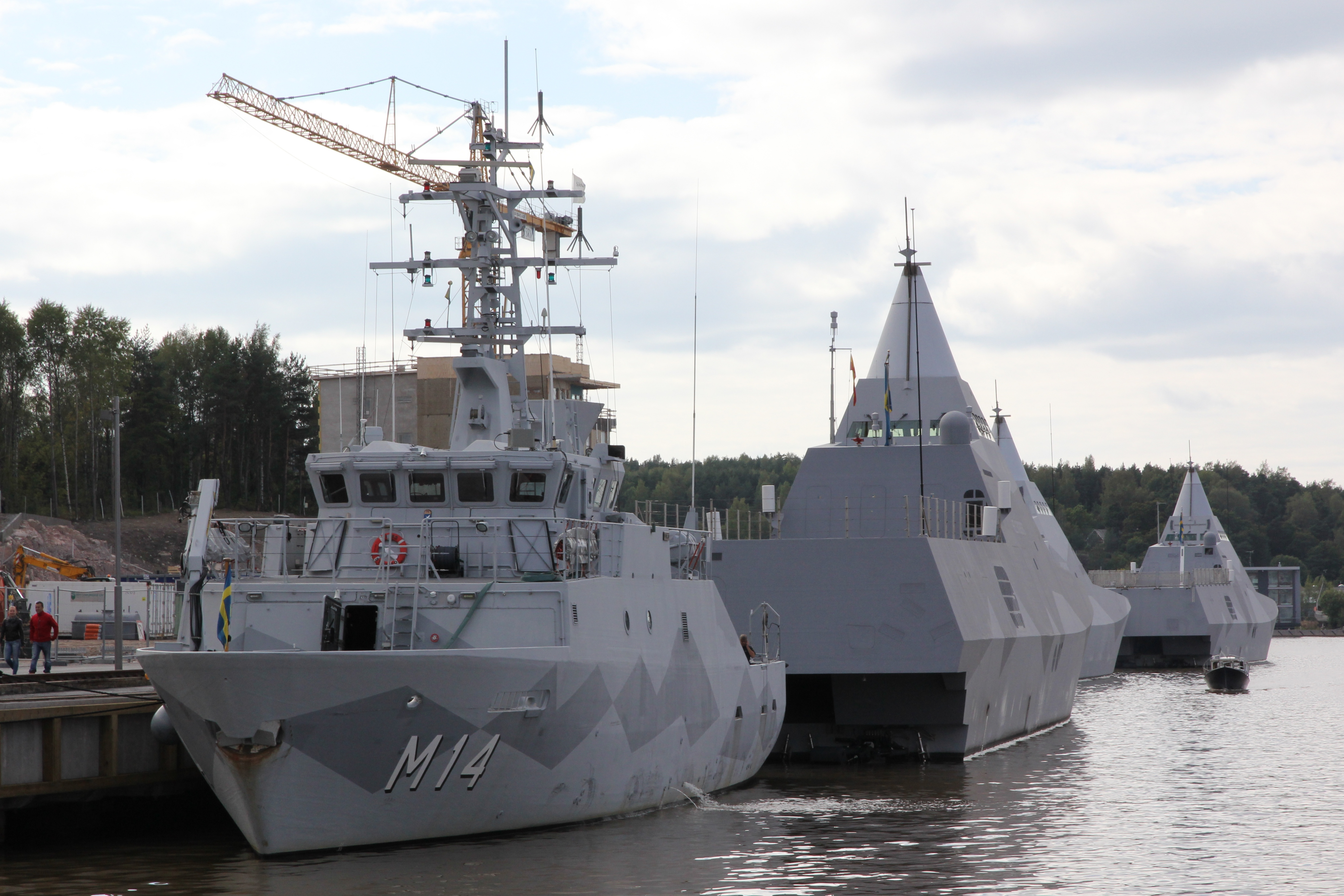 Swedish mine hunter Sturkö (M14) followed Visby class corvettes Helsingborg (K32), Nyköping (K34) and Karlstad (K35) in Aura river in Turku during the Northern Coasts 2014 exercise public pre sail event.